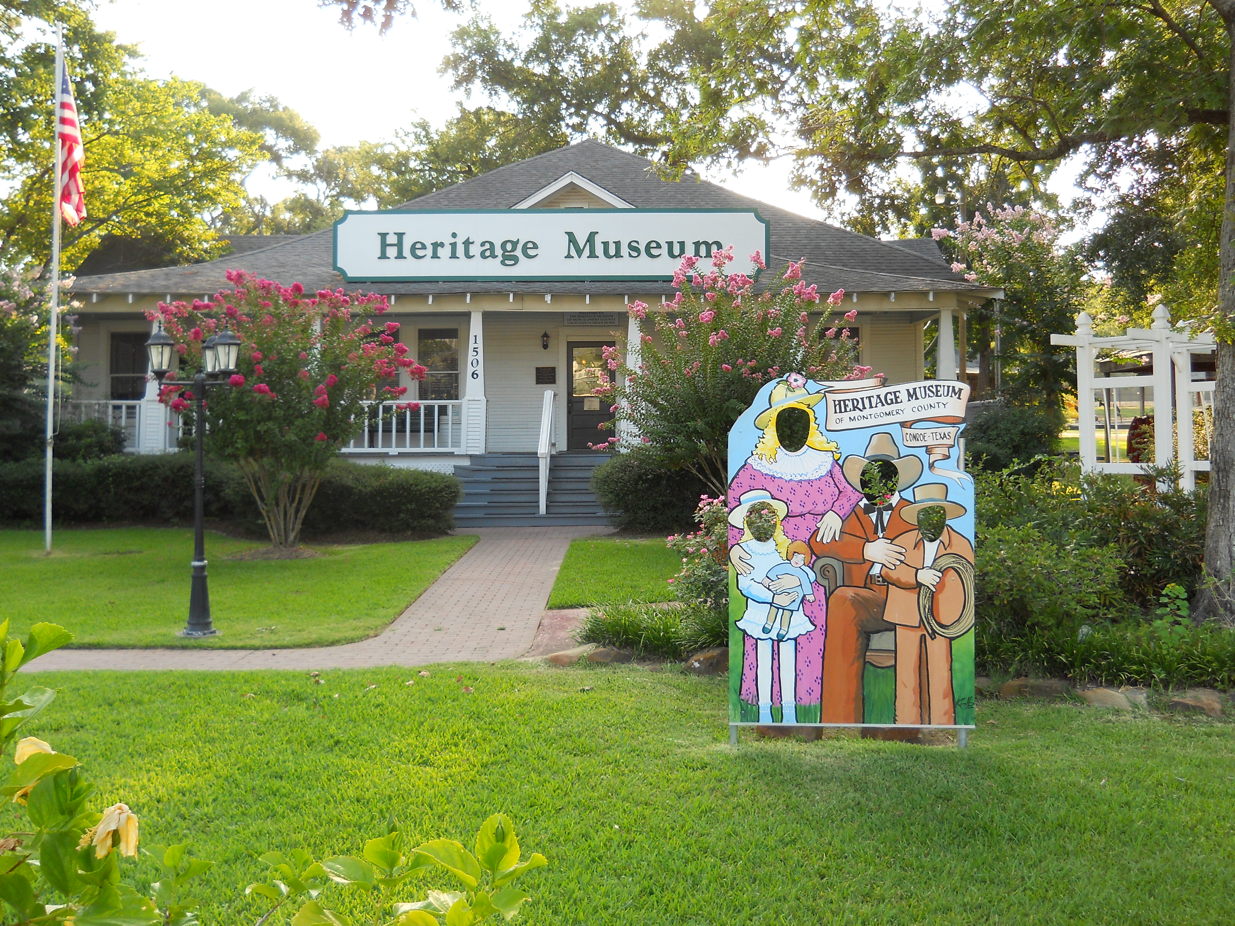 Heritage Museum of Montgomery County, Texas 1506 I-45 North Feeder, Conroe, TX 77301